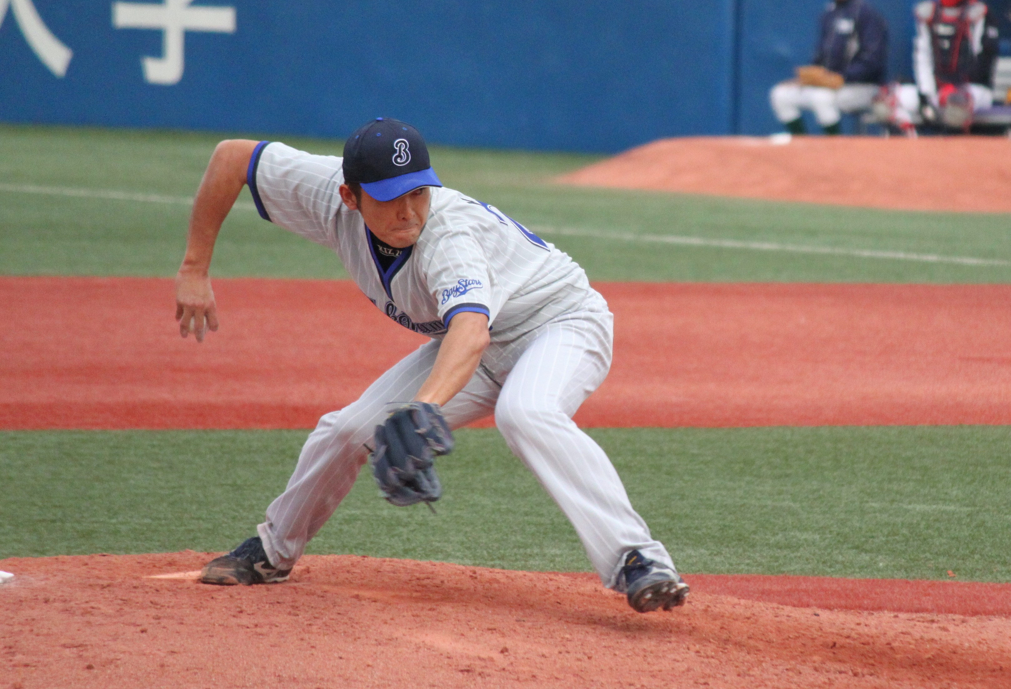 Atsushi Kizuka, pitcher of the Yokohama BayStars, at Meiji Jingu Stadium.